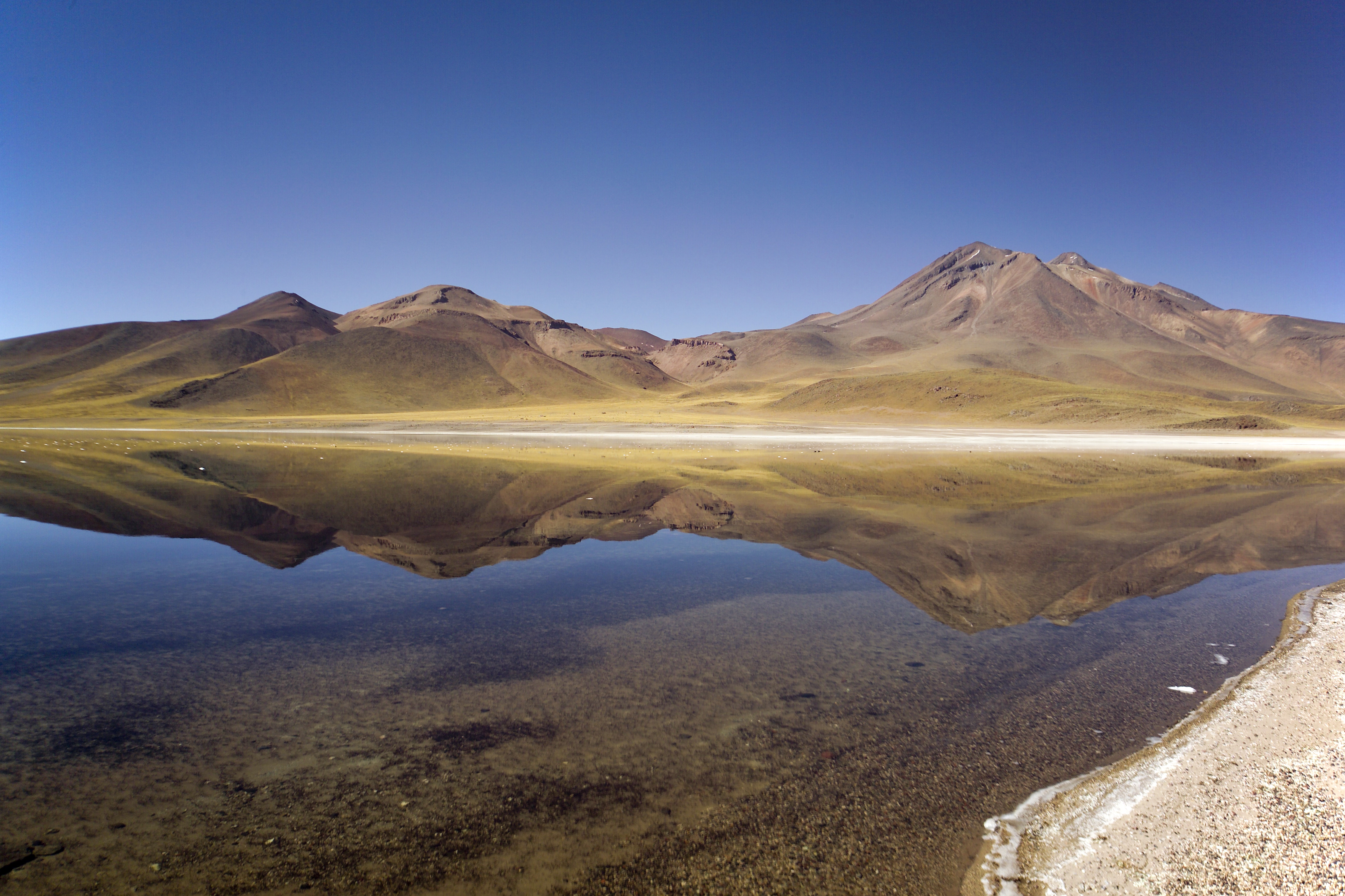 Laguna Miscanti, at an altitude of 13,517 feet (4,120m) is located in the Antofagasta Region of Northern Chile.